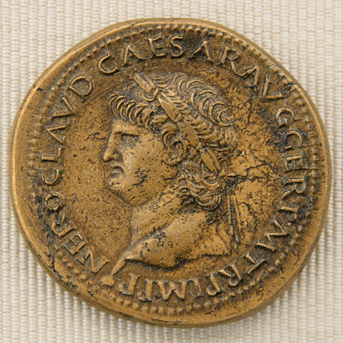 Orichalcum sestertius of Nero, Lyon mint, 65 AD.